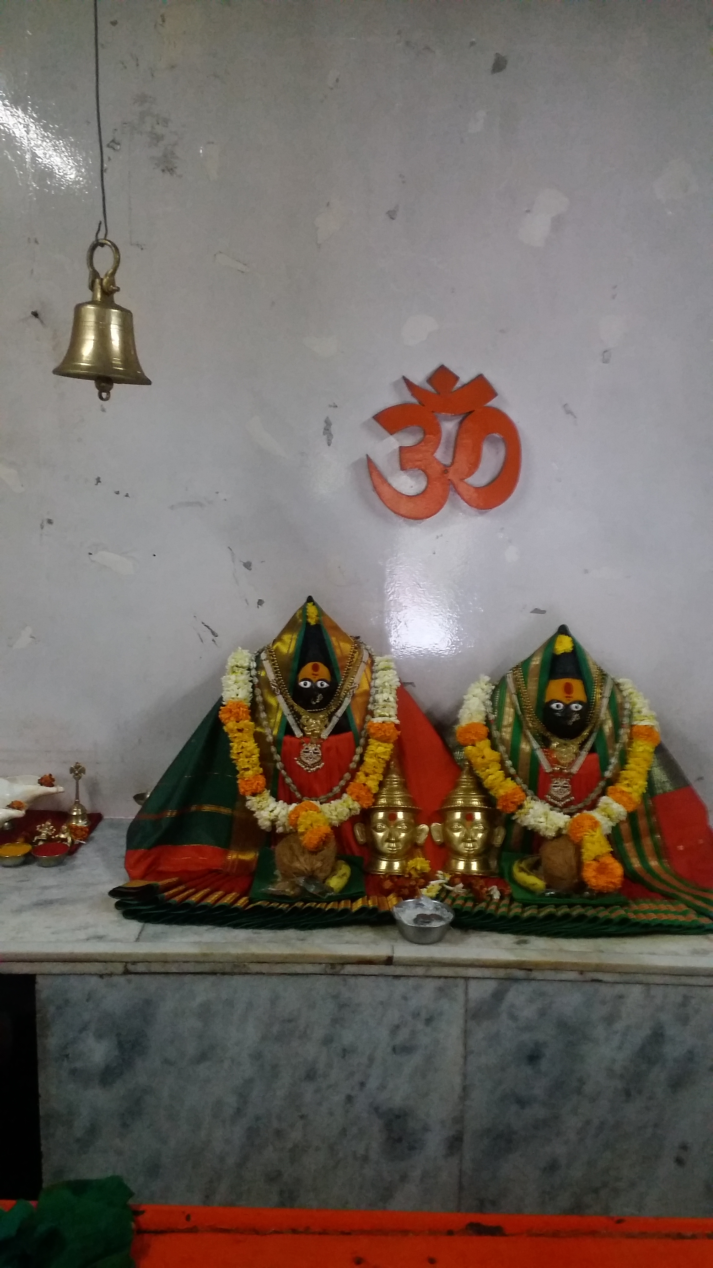 Vandevi Temple, Karve Nagar Pune